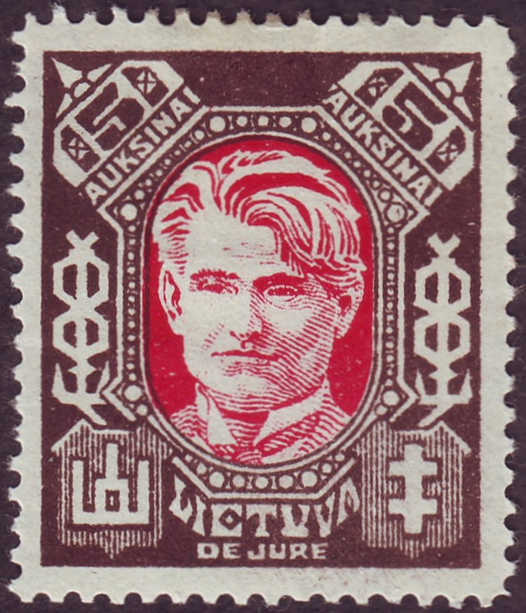 Stamp of Lithuania, issued 1922-09-27, with a portrait of Kazys Grinius (1866-1950). Designed by Adomas Varnas. Michel 134